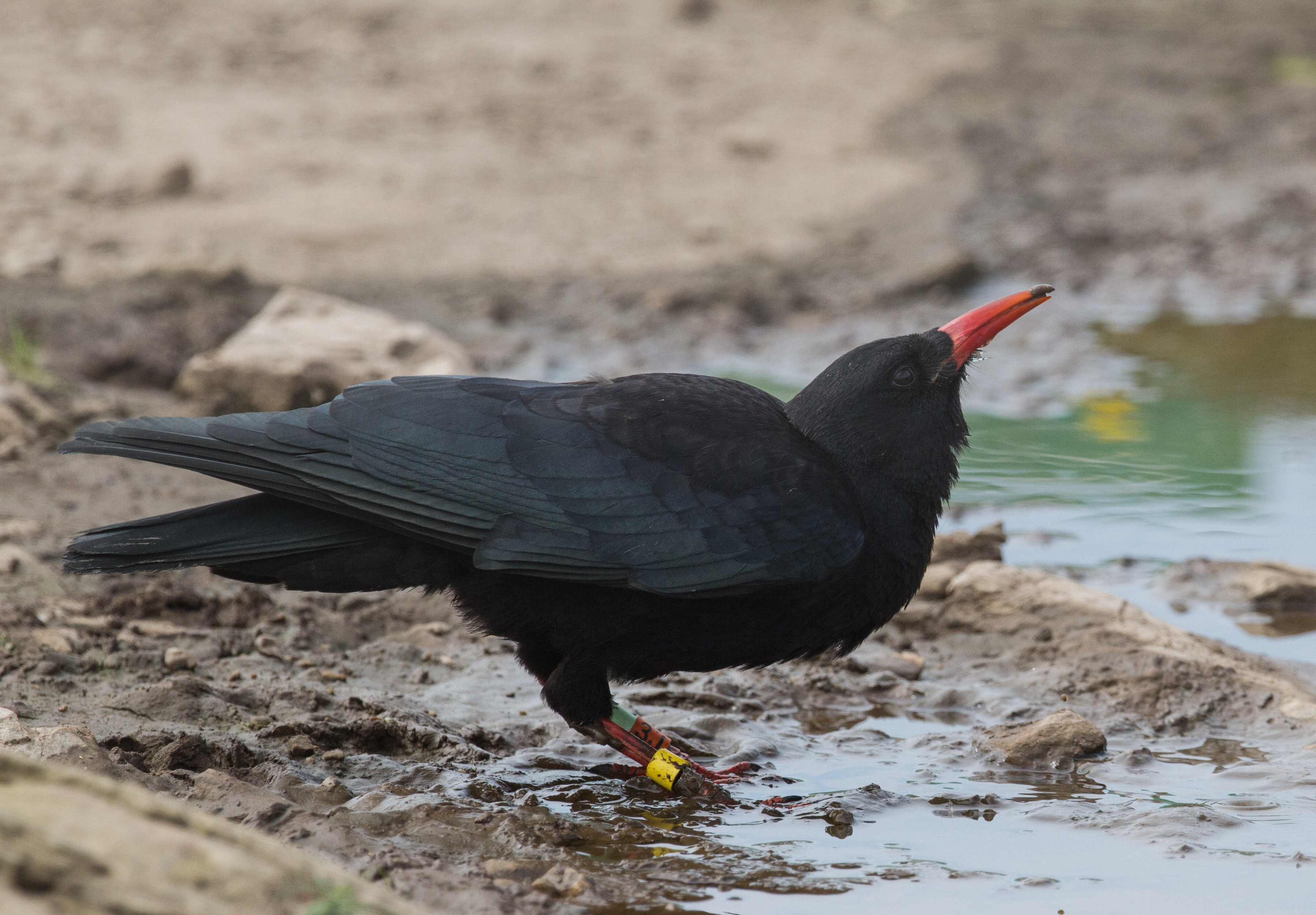 Photo take of Pyrrhocorax pyrrhocorax drinking from a small pond near Twr Elen, South Stack (Welsh: Ynys Lawd) just off Holy Island on the northwest coast of Anglesey, Wales.